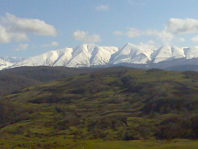 Gory